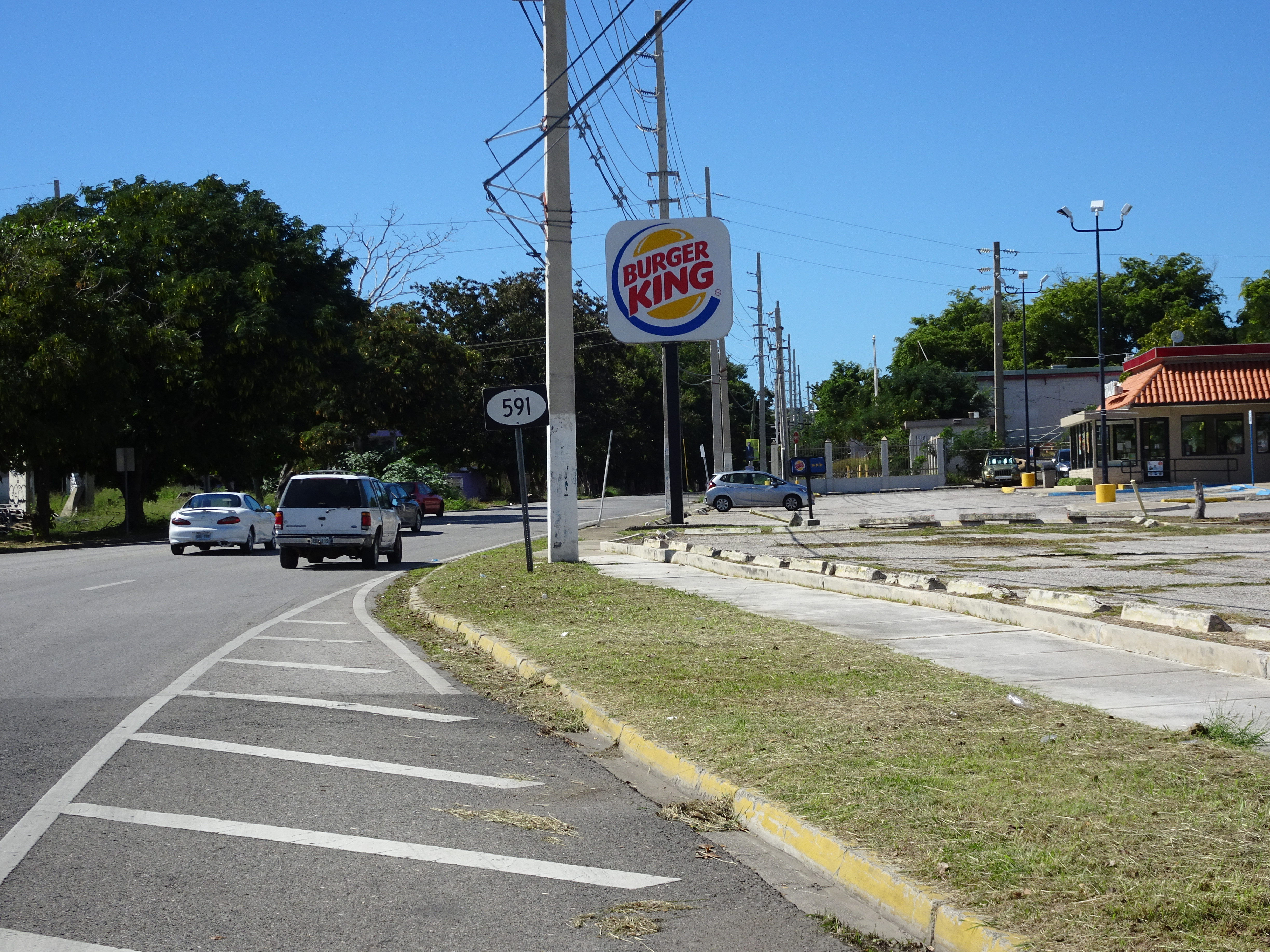 PR-591, sector El Tuque, Bo. Canas, Ponce, Puerto Rico, mirando al oeste (DSC02976)